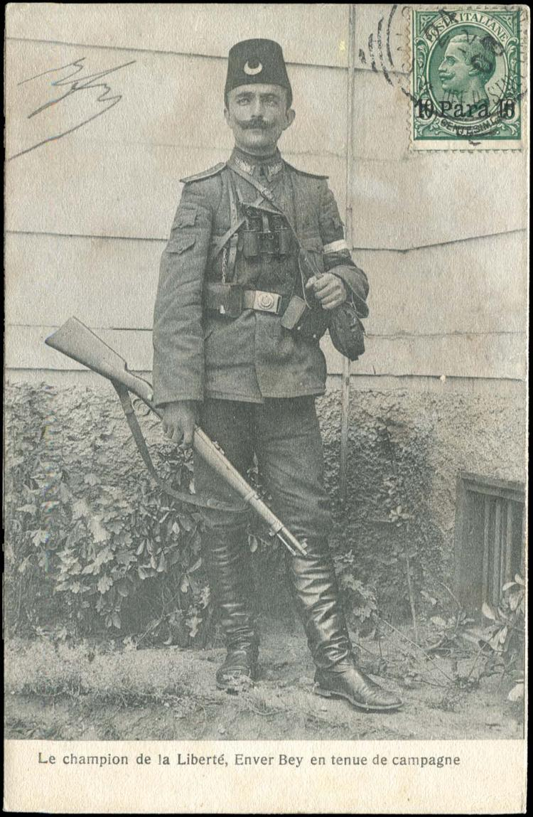 Enver Pasha